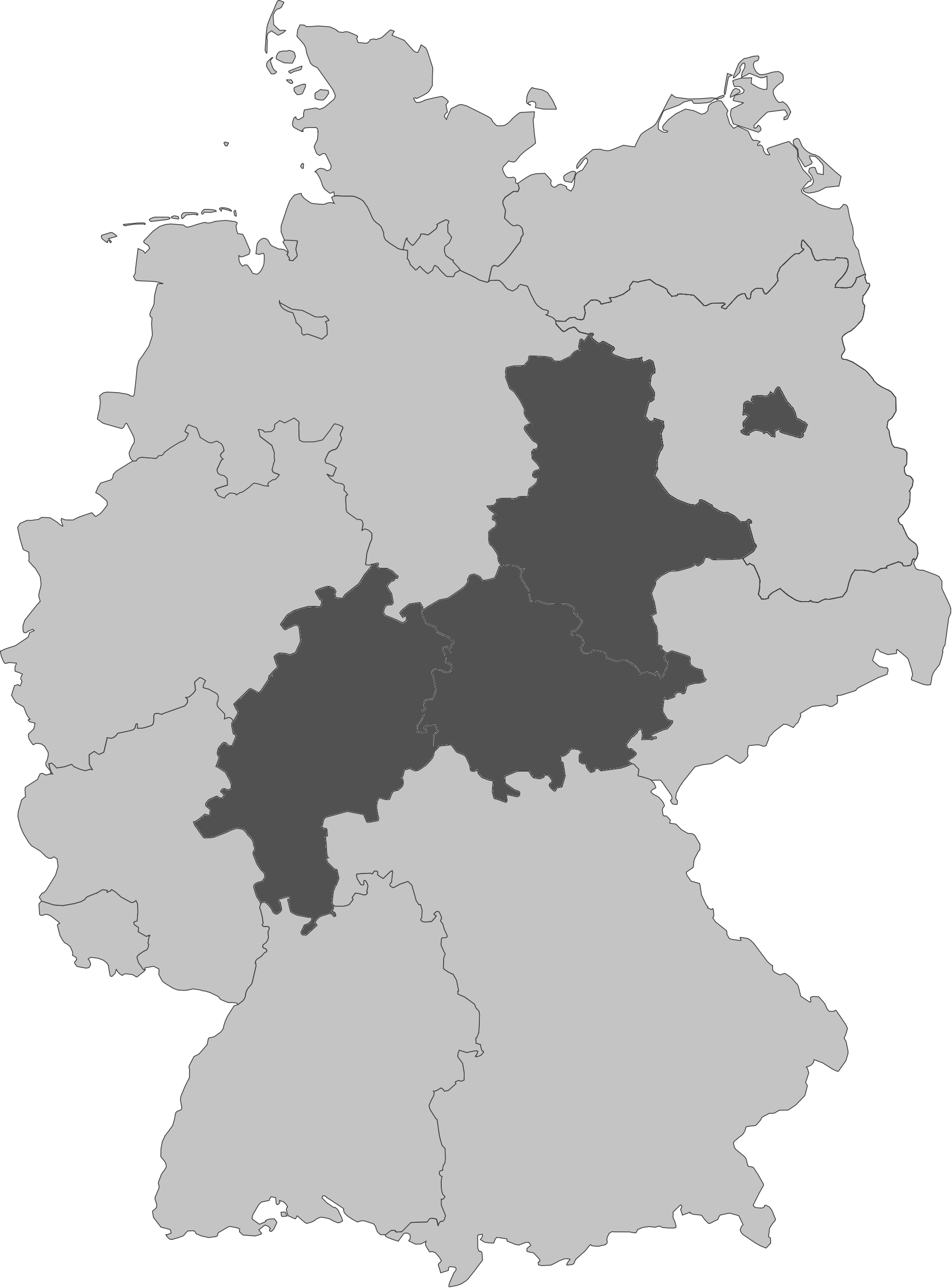 States of post-reunification Federal Republic of Germany that are both landlocked and without access to the sea (Hamburg is not landlocked since it has possession of the Wadden Sea National Park islands)